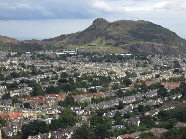 This image was taken from the Geograph project collection. See this photograph's page on the Geograph website for the photographer's contact details. The copyright on this image is owned by Michael Ely and is licensed for reuse under the Creative Commons Attribution-ShareAlike 2.0 license. Attribution: Michael Ely